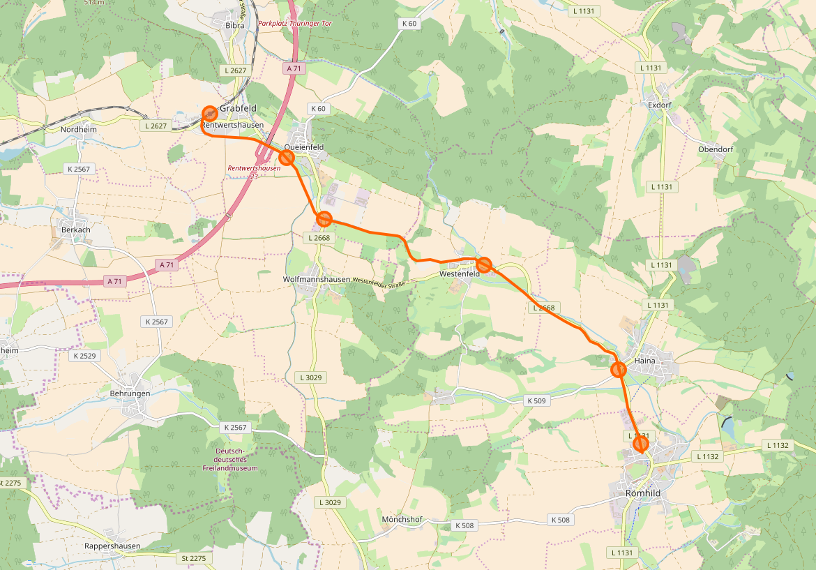 Map of Rentwertshausen–Römhild railway line, which was dismanteled in the early 1970s. The map itself dates from 2017, so the crossing of this railway line with today's motorway A71, which could be assumed from the map, never existed. This map may be incomplete, and may contain errors. Don't rely solely on it for navigation.